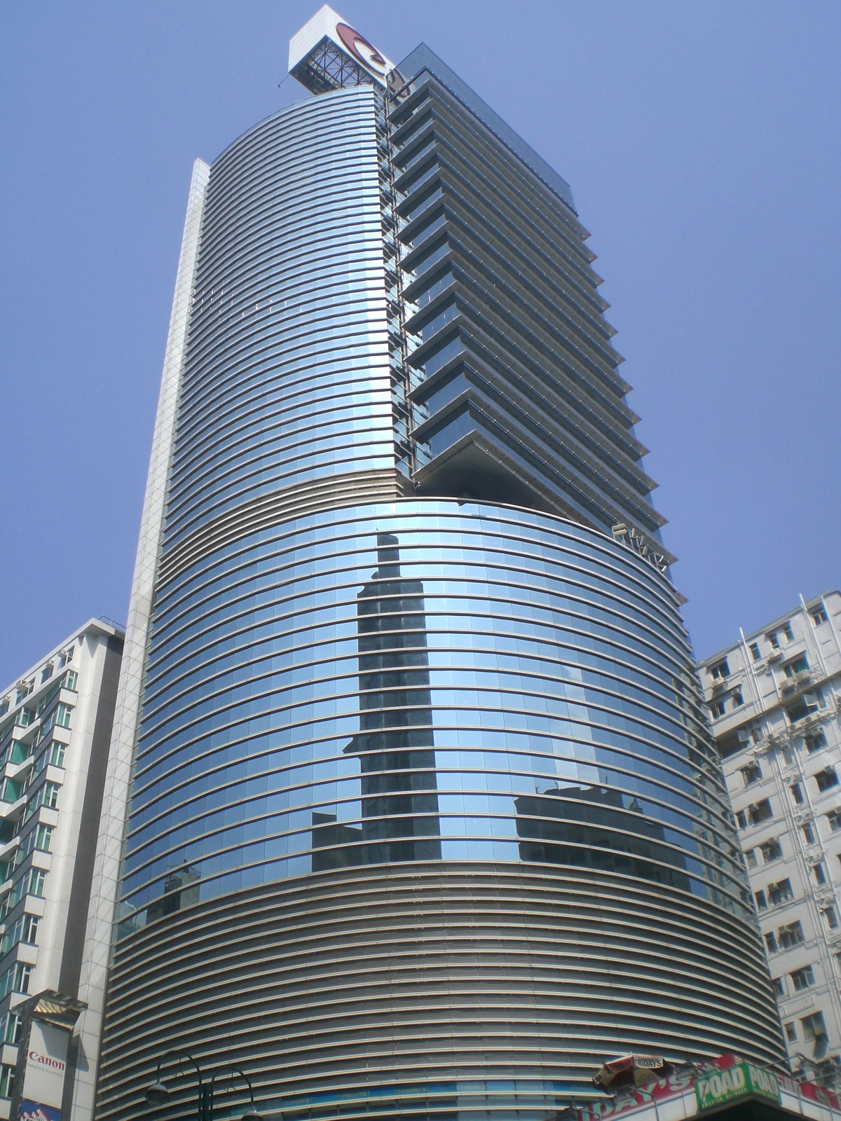 香港zh:尖沙咀 東企業廣場 玻璃幕牆